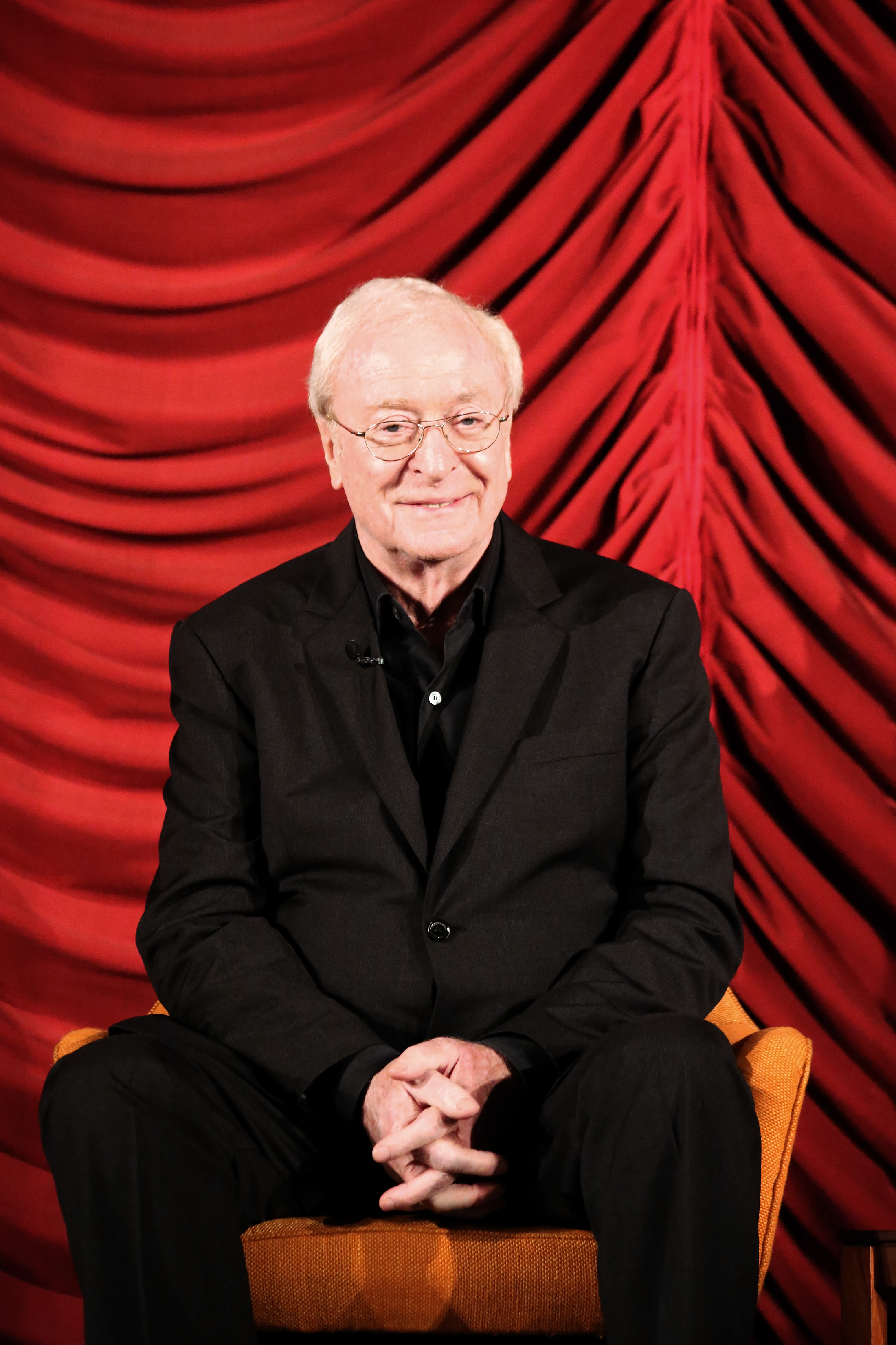 Michael Caine, guest at the Vienna International Film Festival 2012, Gartenbaukino.